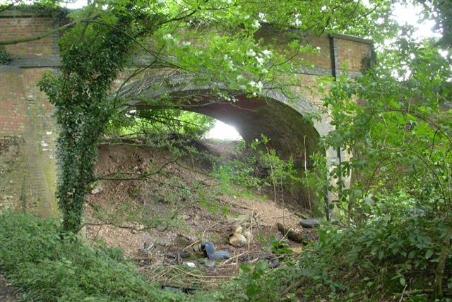 Disused railway line, Lower Farringdon, Hampshire, England.